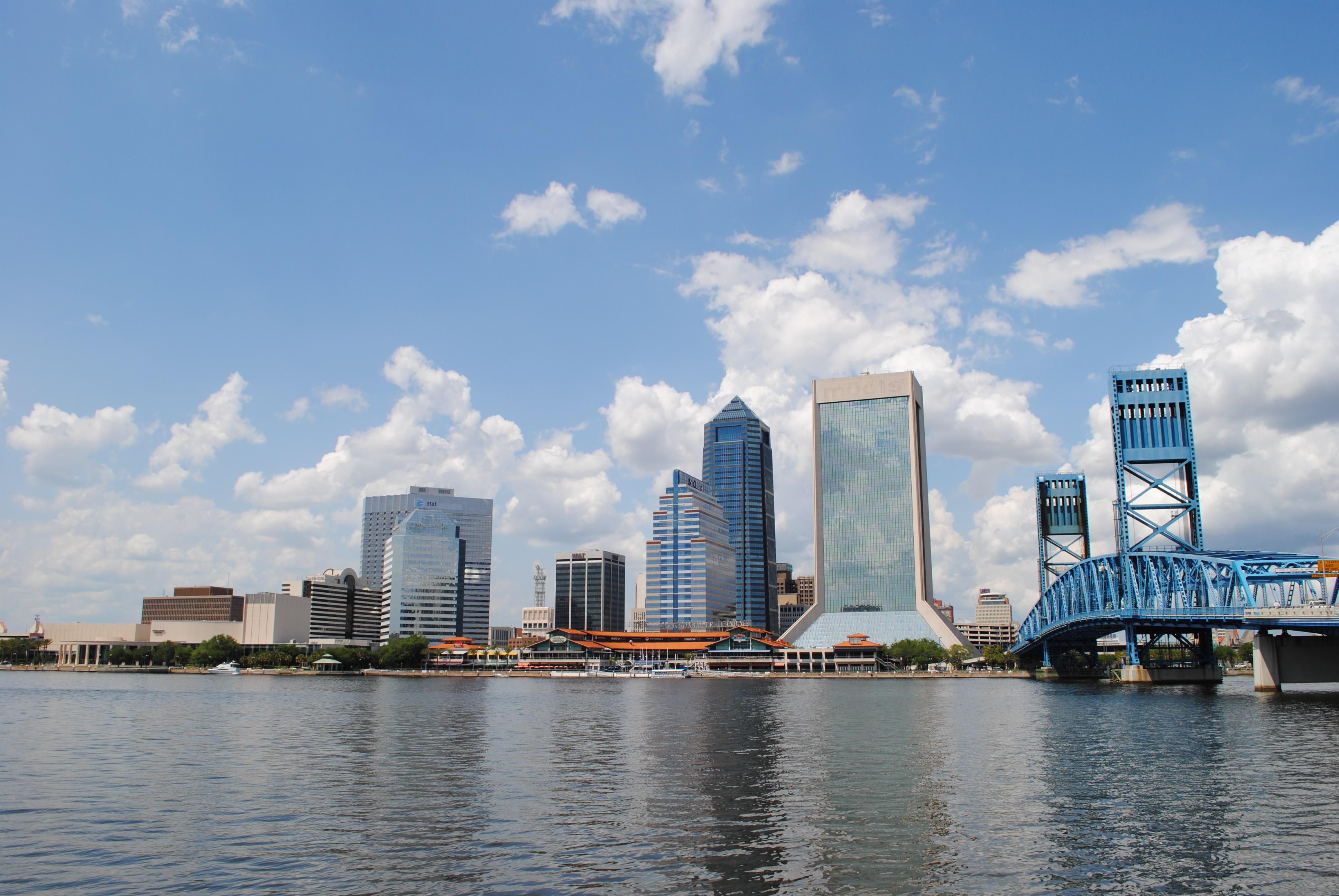 Downtown Jacksonville, Florida.